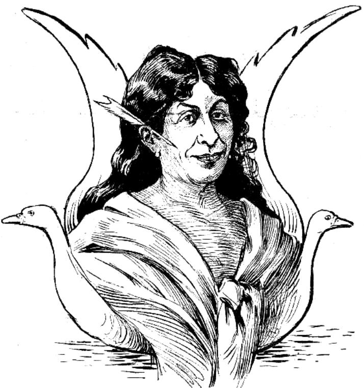 Caricature of the Romanian woman novelist Smaranda "Maica Smara" Gheorghiu, published on the cover of Furnica magazine.